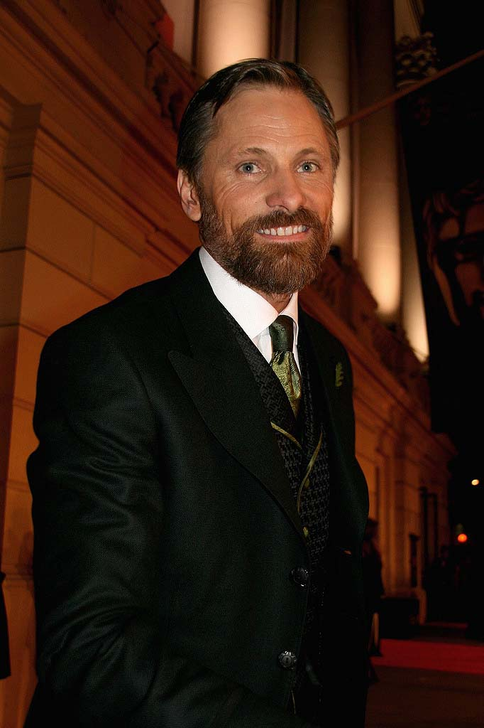 American actor Viggo Mortensen (Eastern Promises) attending the British BAFTA Award Ceremony; February 10, 2008